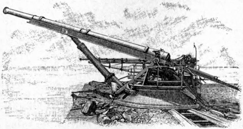 Drawing of the pneumatic dynamite torpedo gun designed by Edmund Louis Gray Zalinski